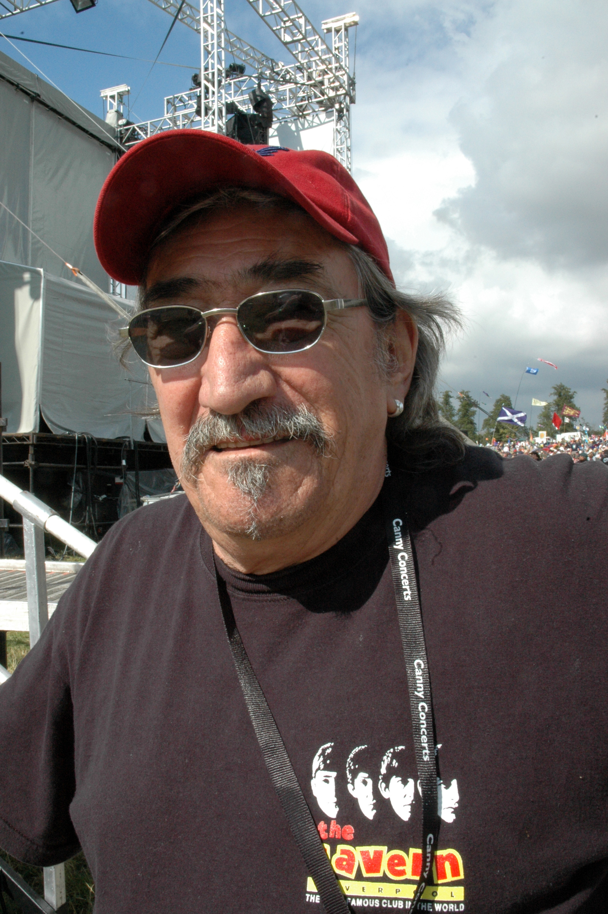 "Hi, boys and girls, I'm and I'm the Indian of the group" Thanks to Mongibeddu for the cutting